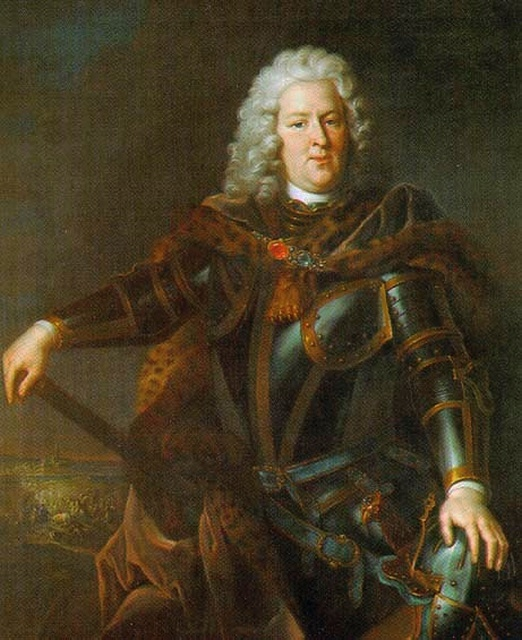 Portrait of Frederick Louis of Württemberg-Winnental (1690-1734) General of Saxony and the Holy Roman Empire